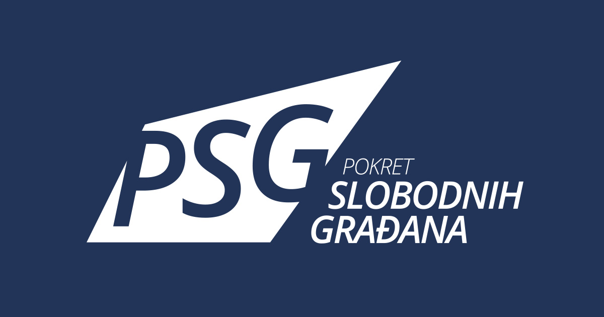 Logo of the Movement of Free Citizens